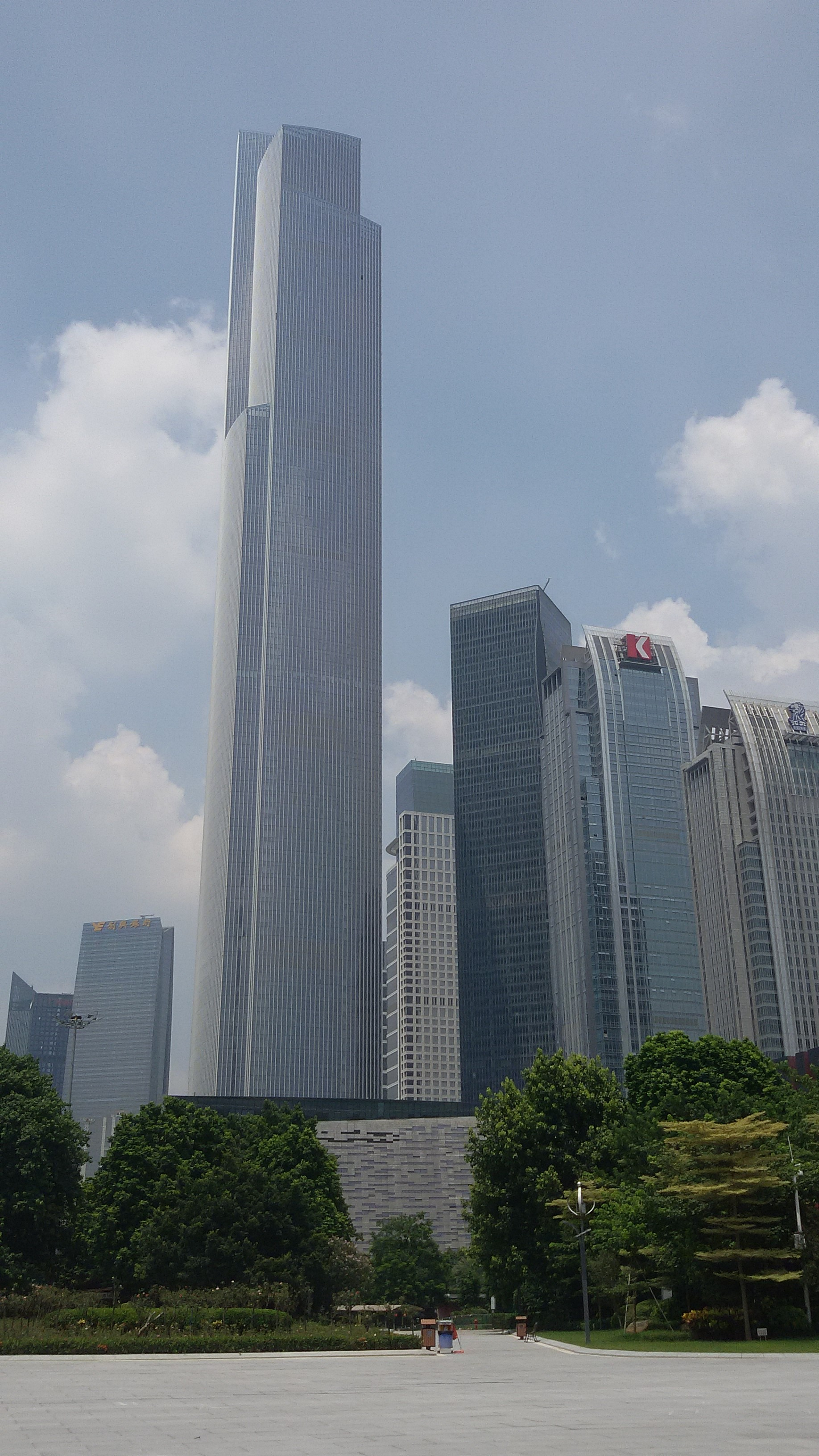 Guangzhou CTF Finance Center